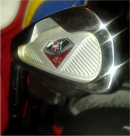 A cavity back iron (4 iron) used in the game of golf.